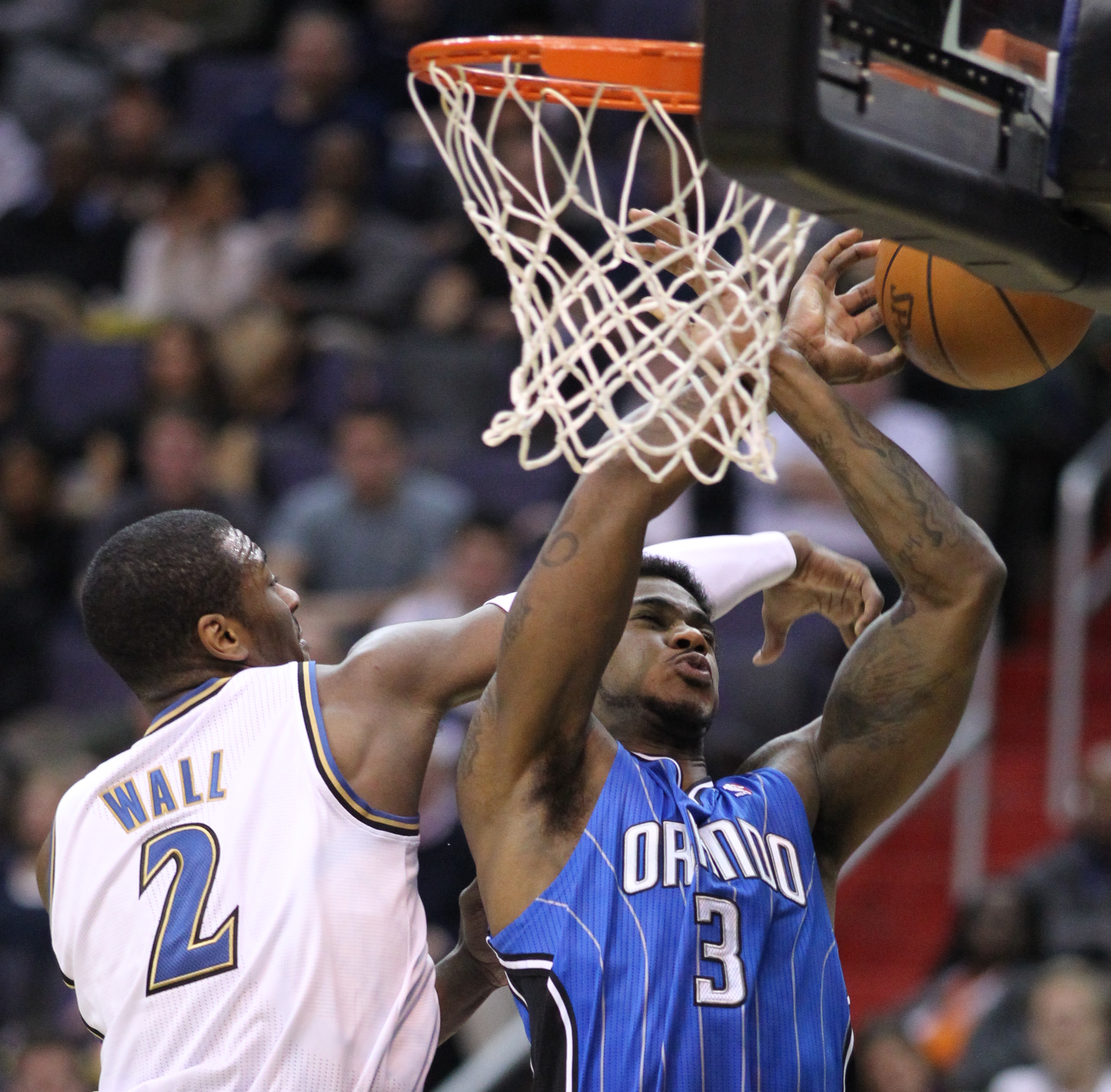 Washington Wizards v/s Orlando Magic February 4, 2011